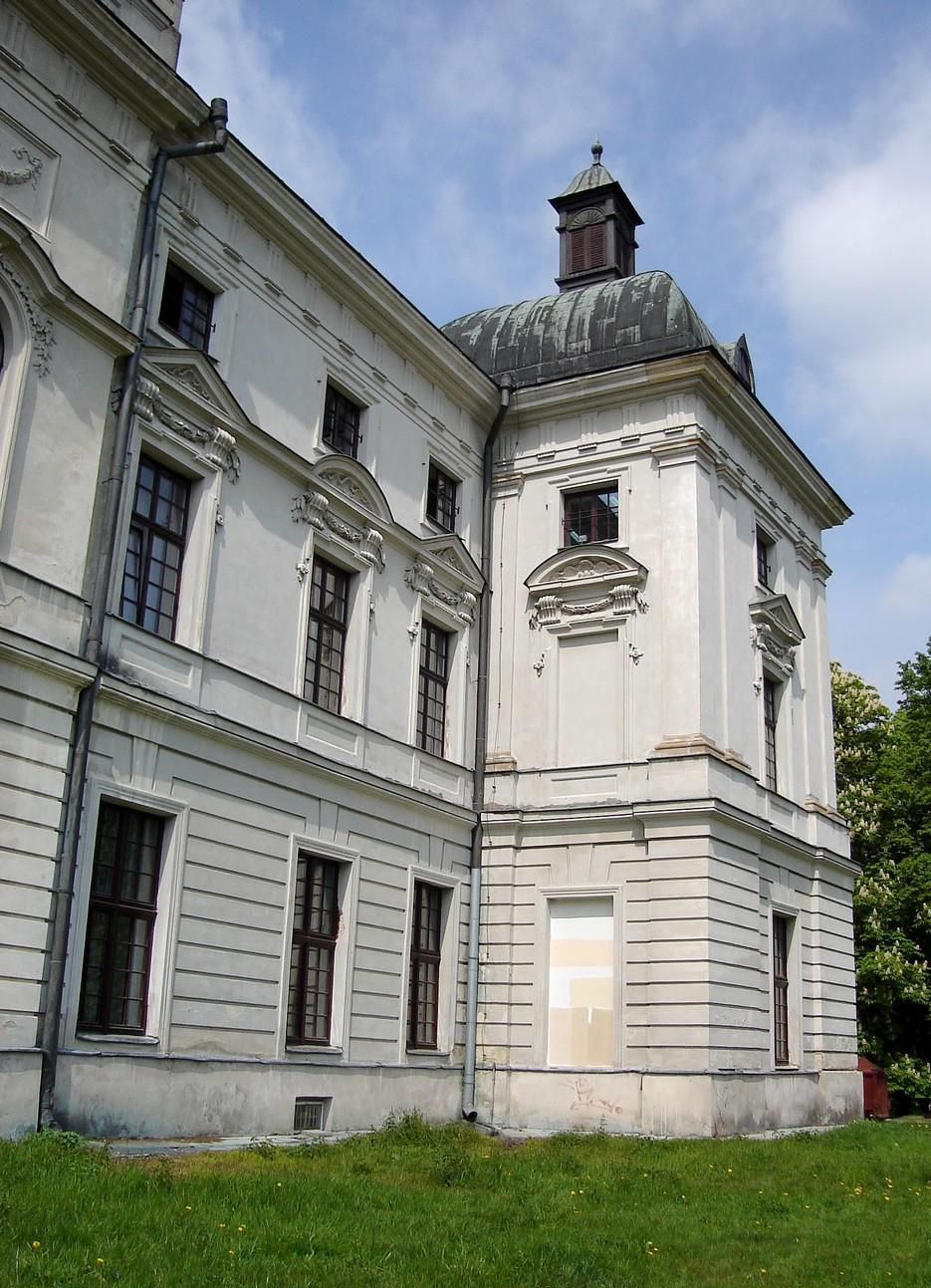 Lubartów, Sanguszków Palace